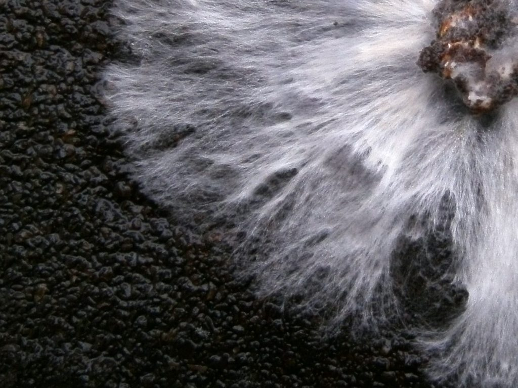 Oyster mushroom (Pleurotus ostreatus) mycelium growing in a petri dish on coffee grounds